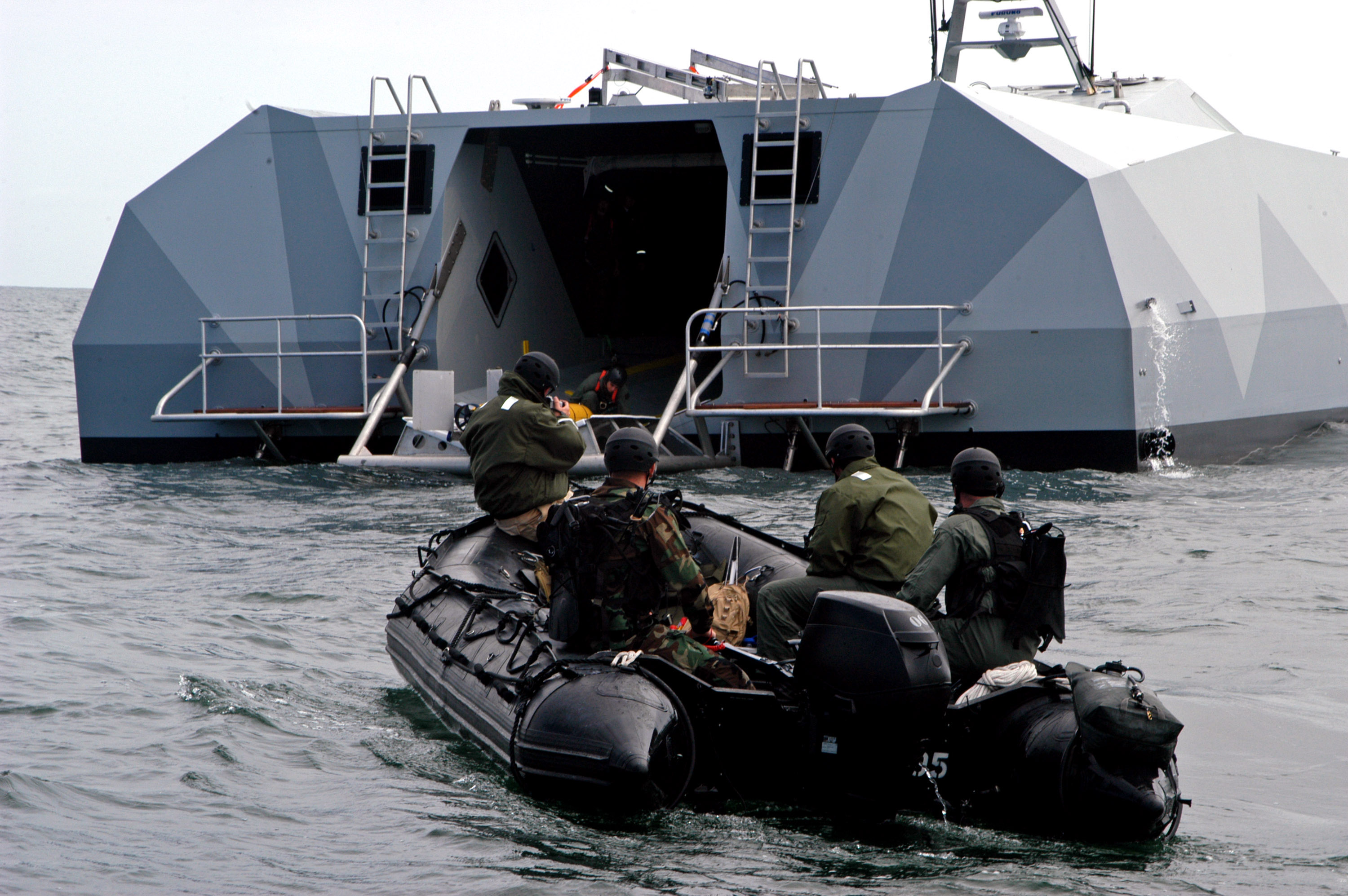 M80 Stiletto during a NAVY SEALs training. Text by the USN: "Sailors assigned to Naval Special Clearance Team One (NSCT-1) prepare to enter the well deck aboard experimental boat ship Stiletto".